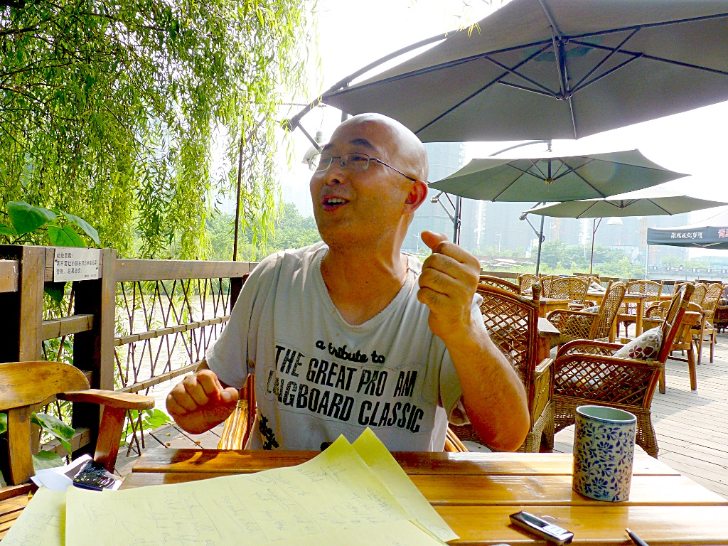 Chinese writer Liao Yiwu during an interview in Chengdu in July 2010.